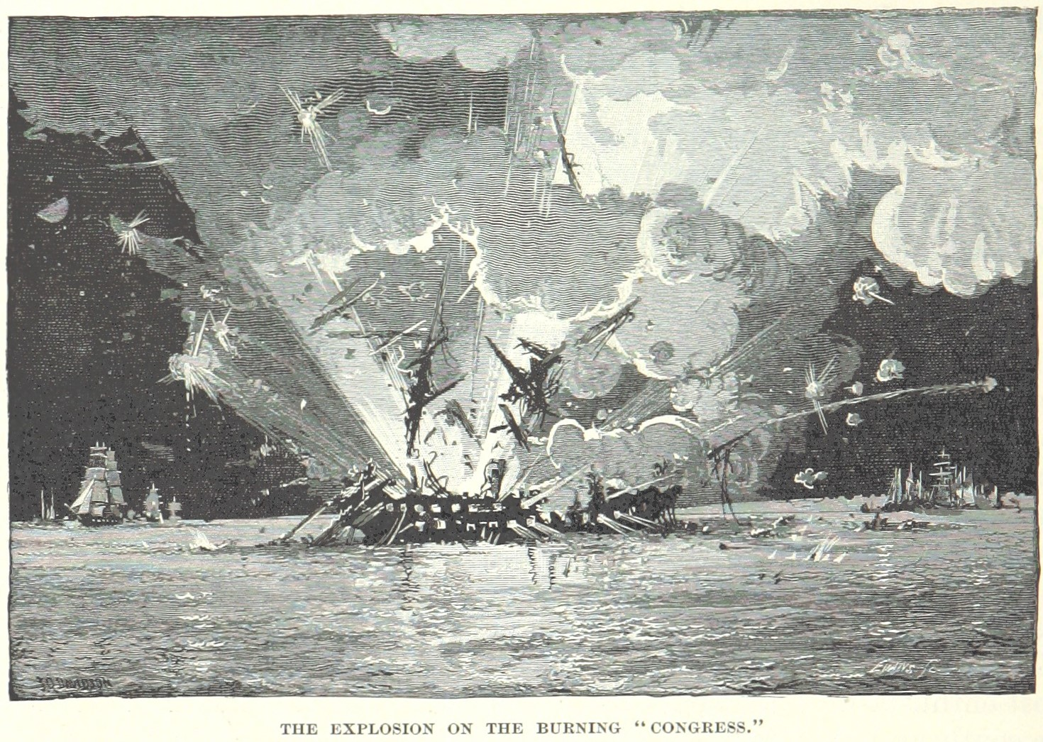 The badly damaged USS Congress explodes during the Battle of Hampton Roads.